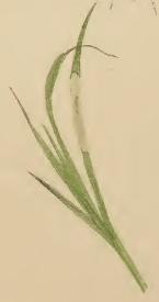 Stainton’s Natural History of the Tineina (1855–1873): Elachista tetragonella a sprig of Carex montana exhibiting a mined leaf blade